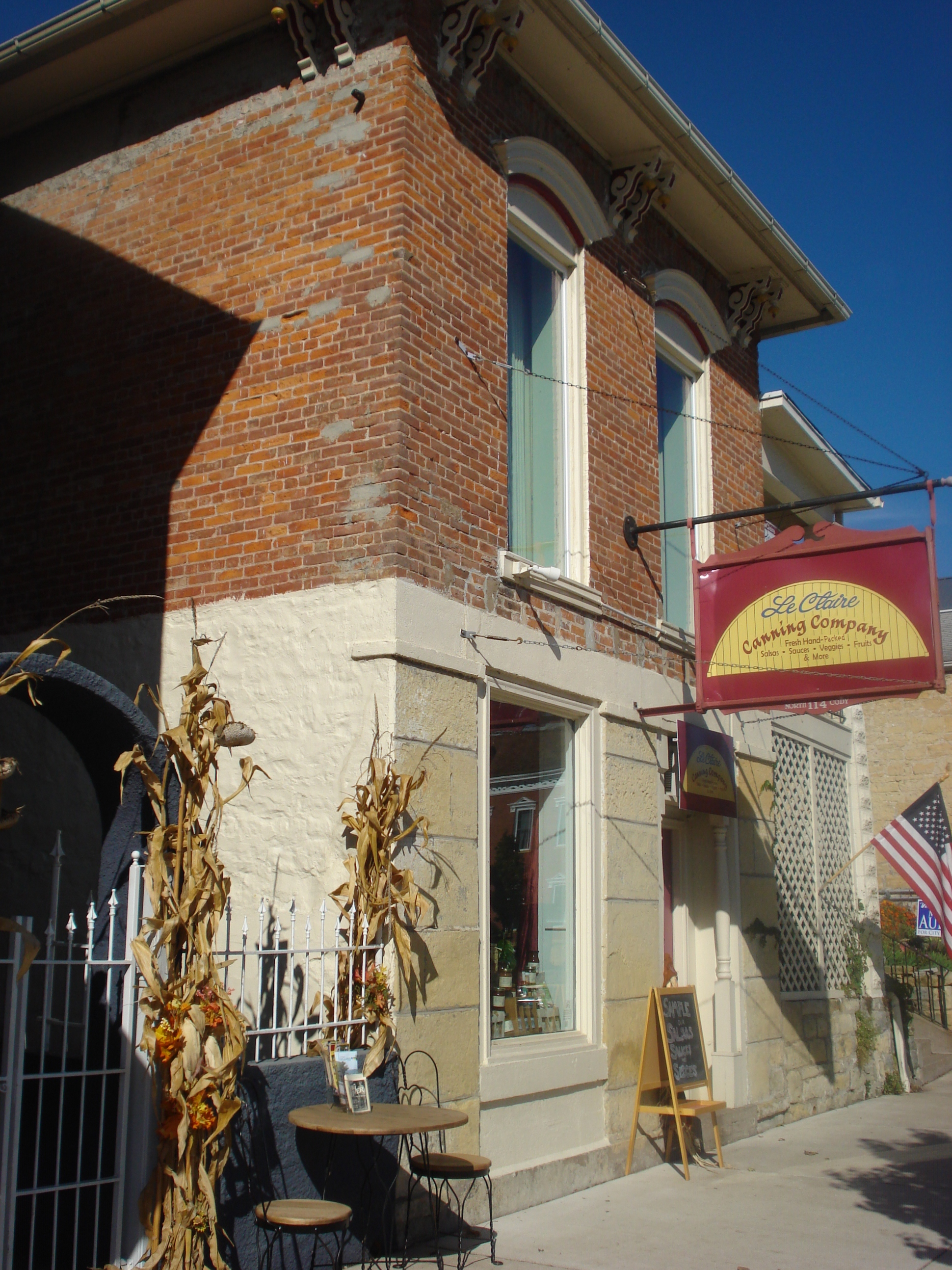 Cody Road is the main street through Le Claire. It includes the Central Business District.